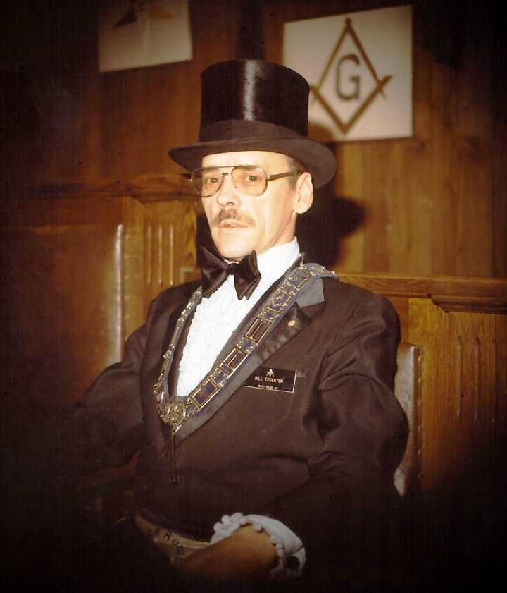 Bill Edgerton, Worshipful Master of River Rouge No. 511 Free and Accepted Masons, Michigan United States of America